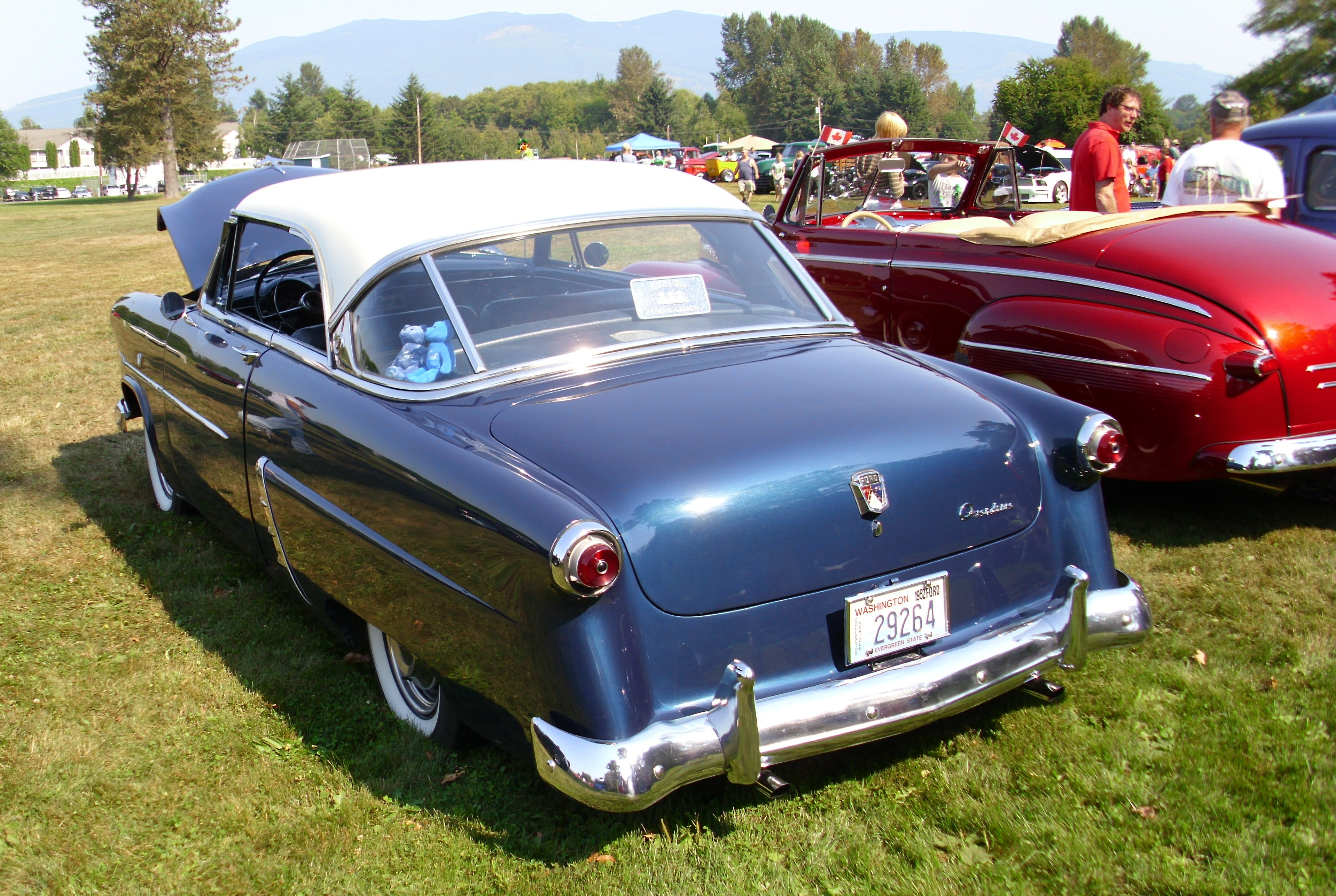 Seen at the Sedro Woolley Founders' Day Car Show, on the banks of the Skagit River.